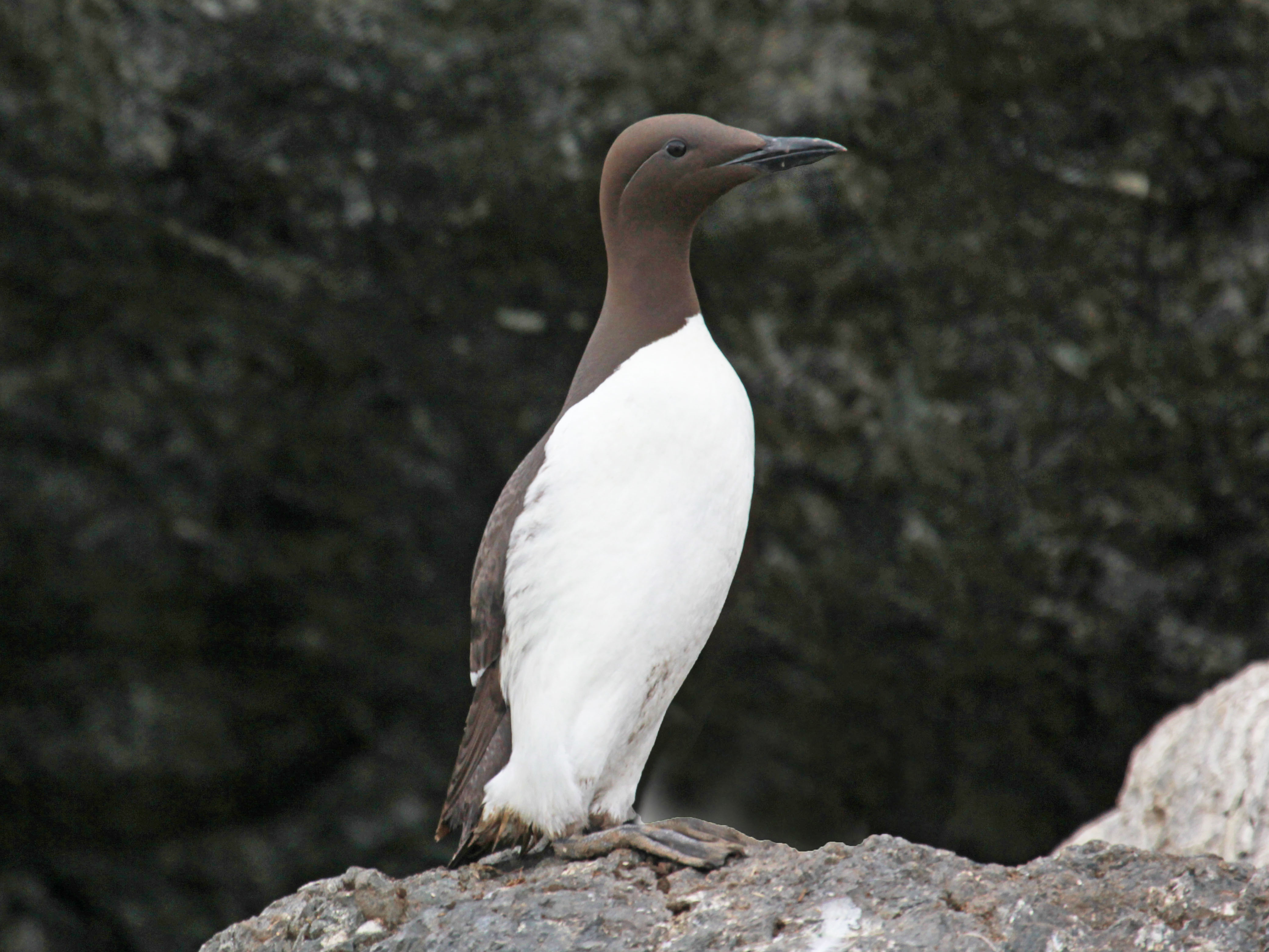 Common Murre ( Uria aalge), also known as Common Guillemot. Photographed at Gull Island, Kachemak Bay, Alaska